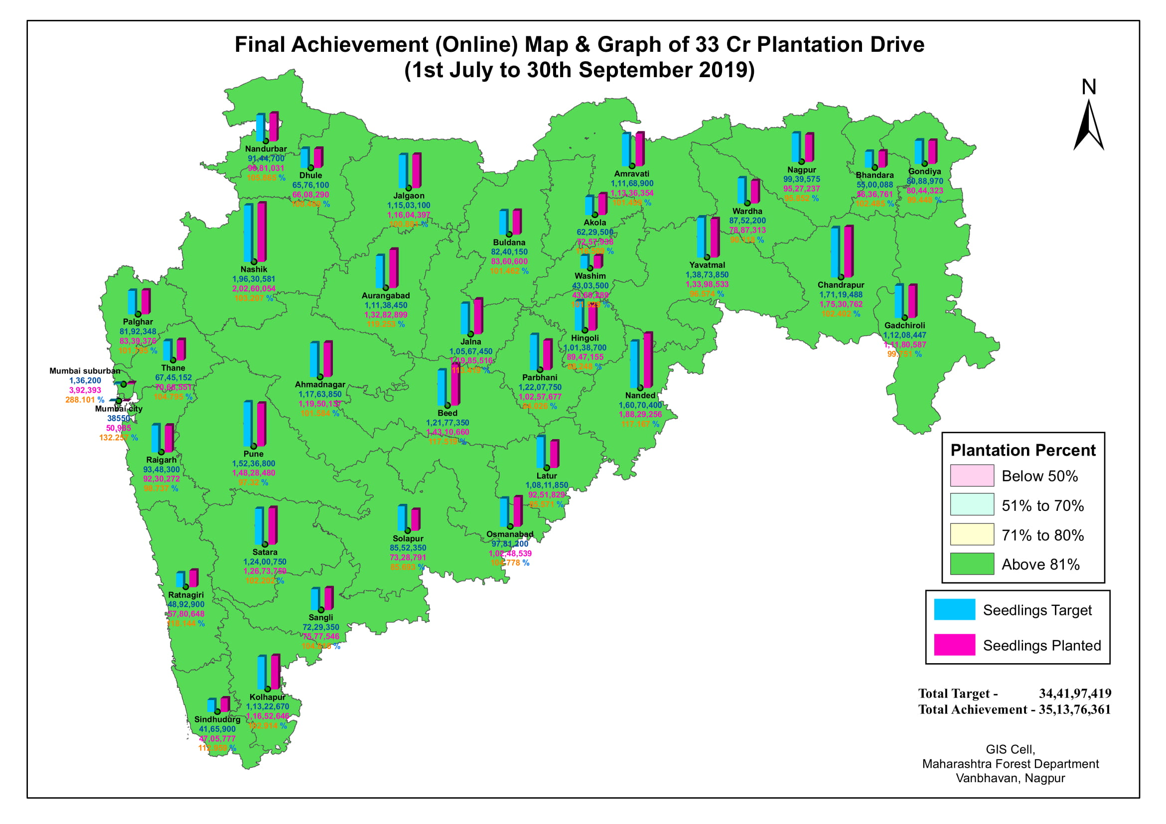 Final Achievement (Online) Map & Graph of 33 Crore Plantation Drive from 1st July to 30th September 2019